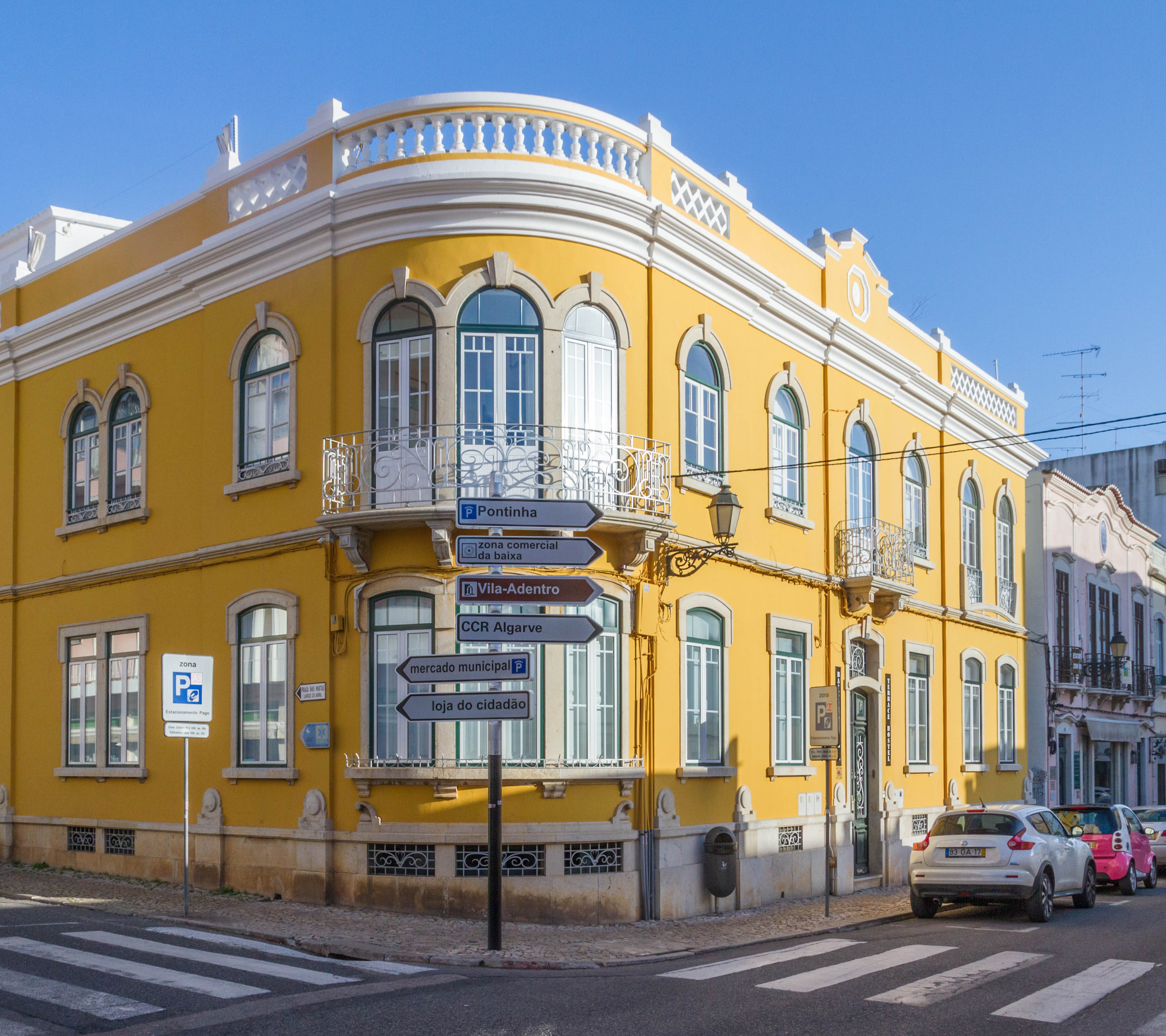 The making of this document was supported by the Community-Budget of Wikimedia Germany. Haus in Faro, Portugal